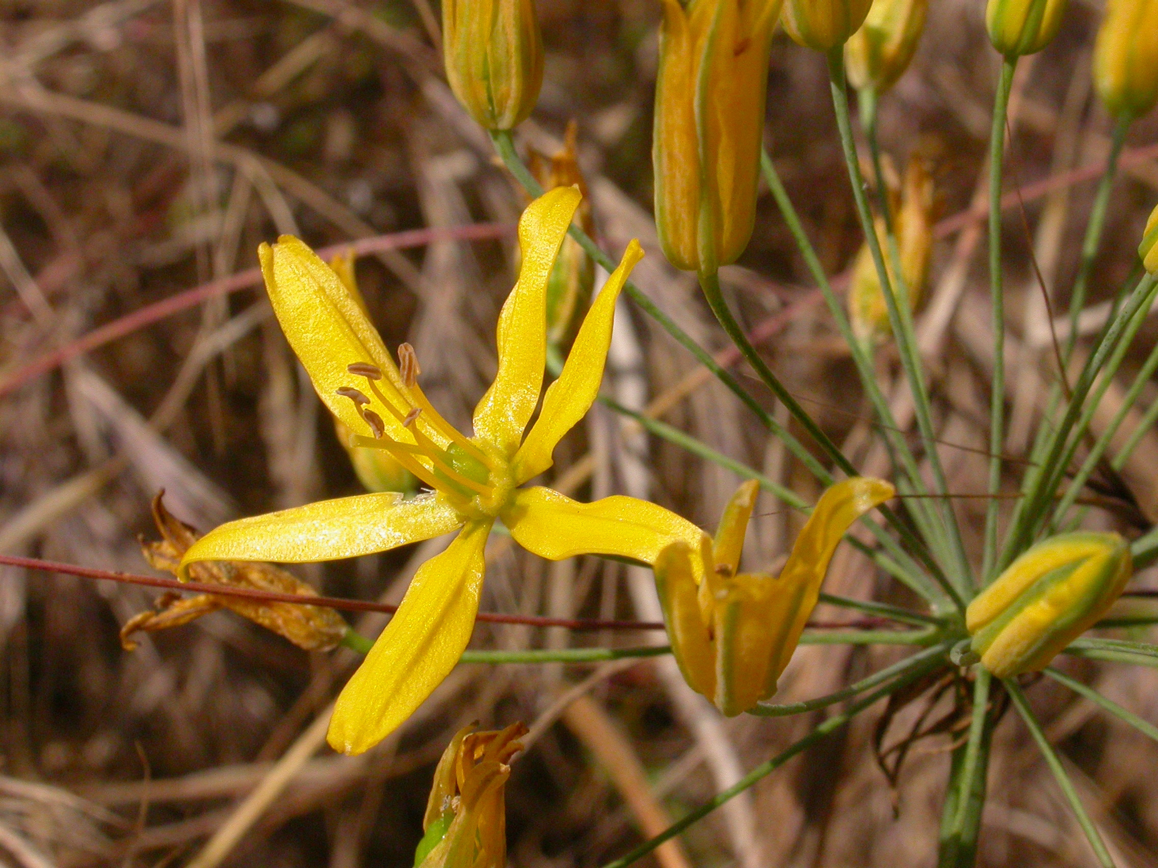 Bloomeria crocea Photographed in Voorhis Ecological Reserve near Pomona, CA, USA.